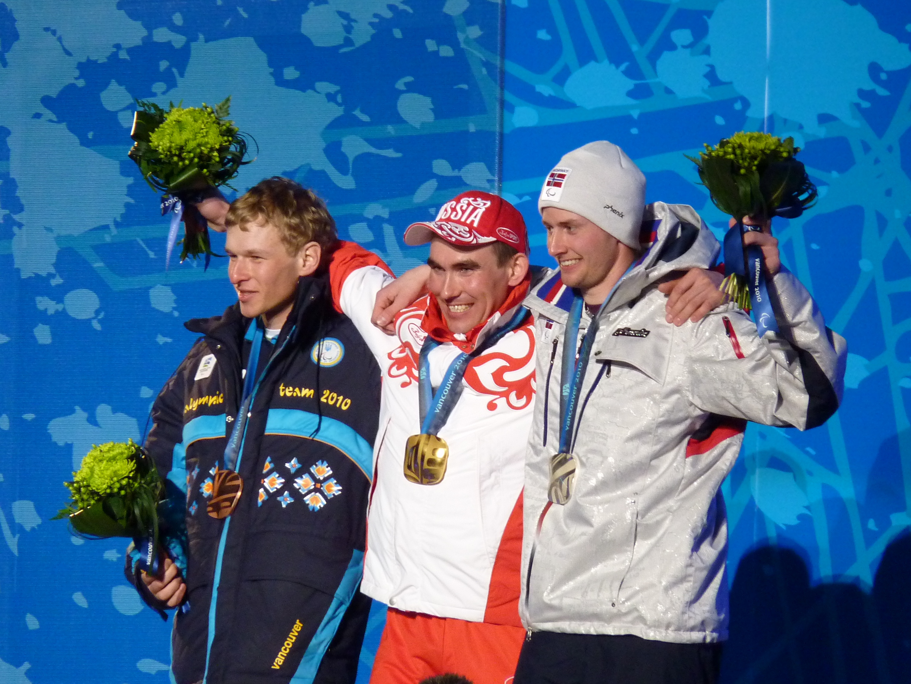 From left to right: Grygorii Vovchynskyi of the Ukraine (bronze), Kirill Mikhaylov of Russia (gold), and Nils-Erik Ulset of Norway (silver), at the medal ceremony for biathlon, men's 3km Pursuit, standing, during the 2010 Paralympics in Vancouver